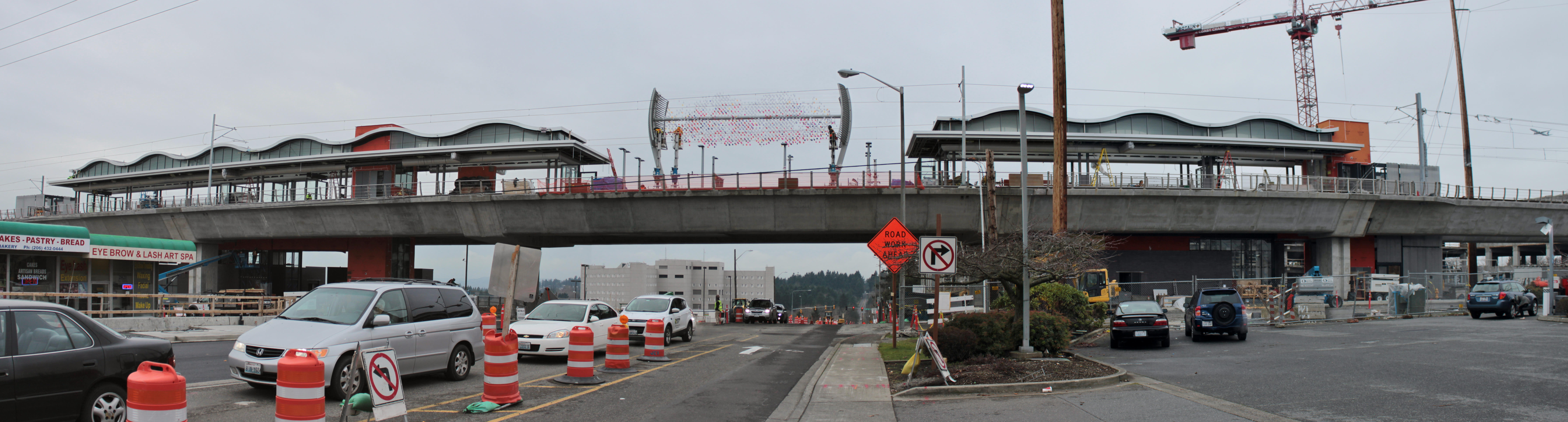 Angle Lake station, a light rail station in SeaTac, Washington, under construction in December 2015. The station is scheduled to be completed in late 2016.